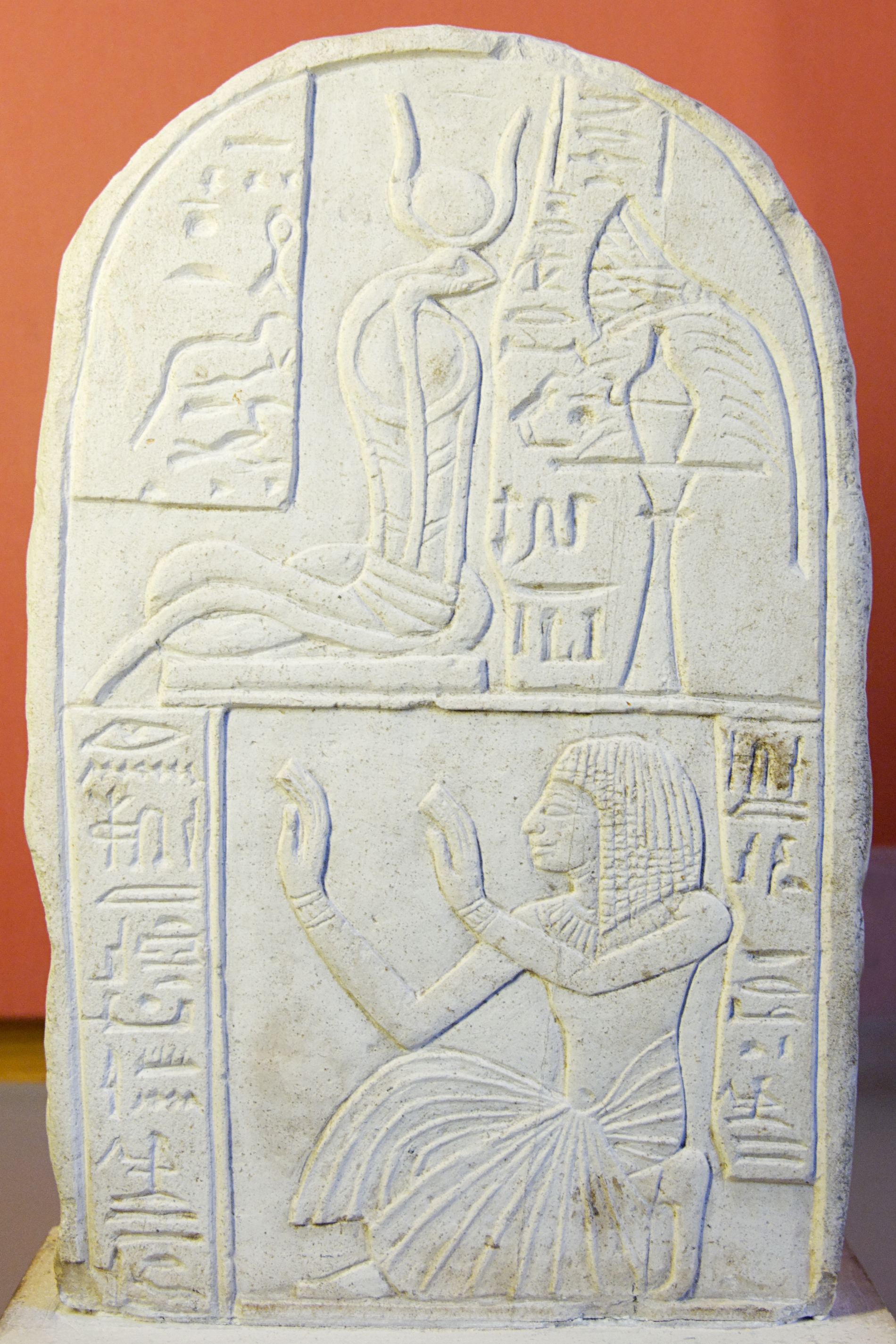 Nakhtimen, a drawer from Deir el-Medina, praying Meretseger the snake-goddess. Limestone, New Kingdom.